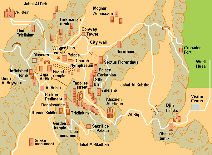 Map (rough) of the archaeological sites at Petra, in Jordan. Credits Own work composed from various map references.